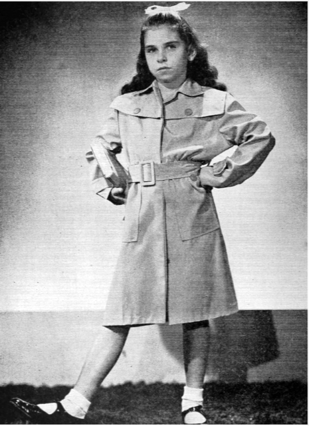 Photo of child actress Norma Jean Nilsson in 1946. A check for renewals was done in periodicals for the years 1973 and 1974 There were no listings for this publication; there's no evidence of current copyright.